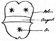 Drawing of the coat-of-arms of the Taliaferro family, as drawn by Thomas Jefferson. Jefferson's law teacher and friend George Wythe had asked him in 1786 to investigate the family's coat-of-arms in Italy. Jefferson subsequently sent to Wythe a sketch of the arms of the Tagliaferro family of Italy, the information about which he had obtained from an Italian friend.